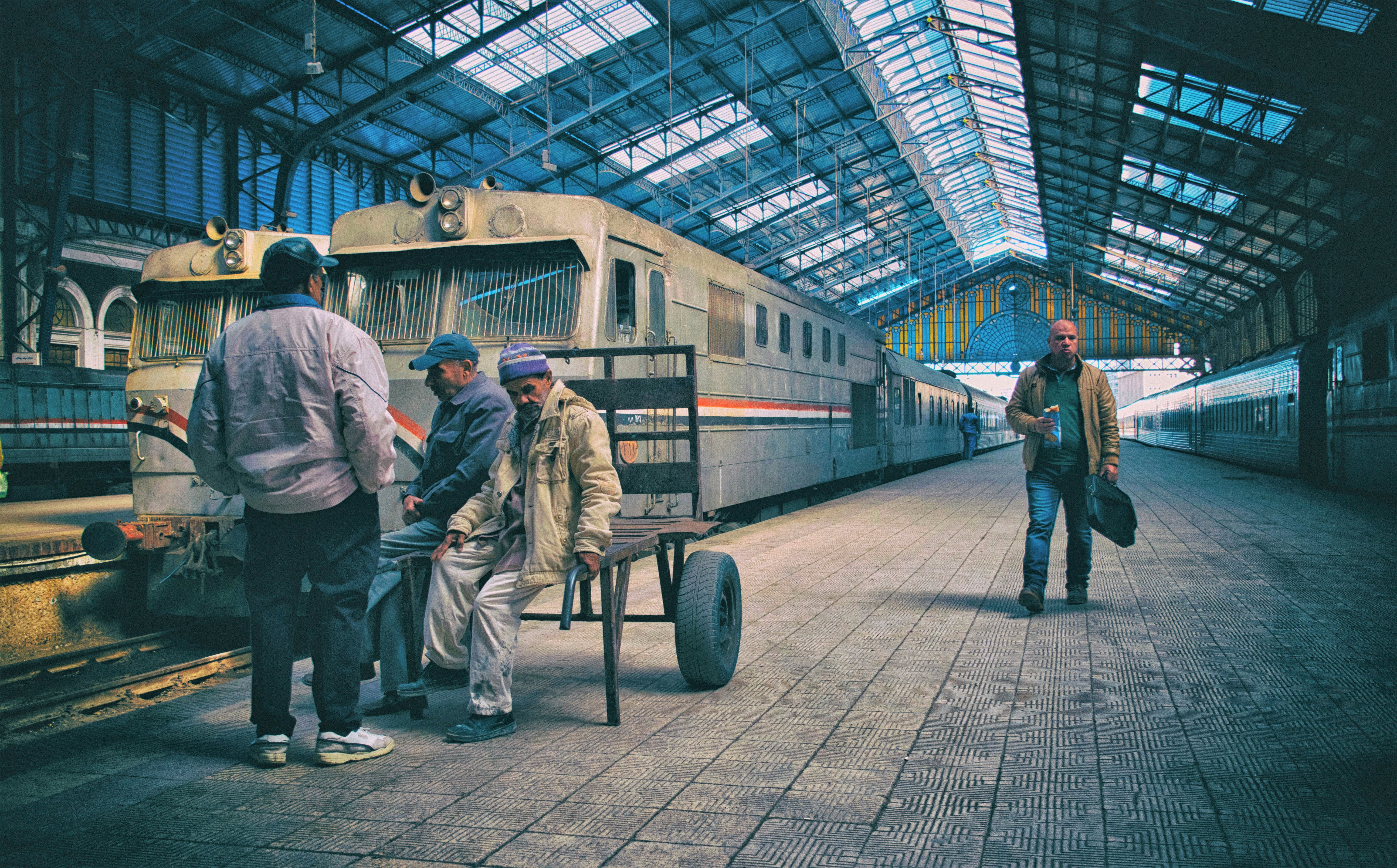 This is an image with the theme "Africa on the Move or Transport" from: Egypt